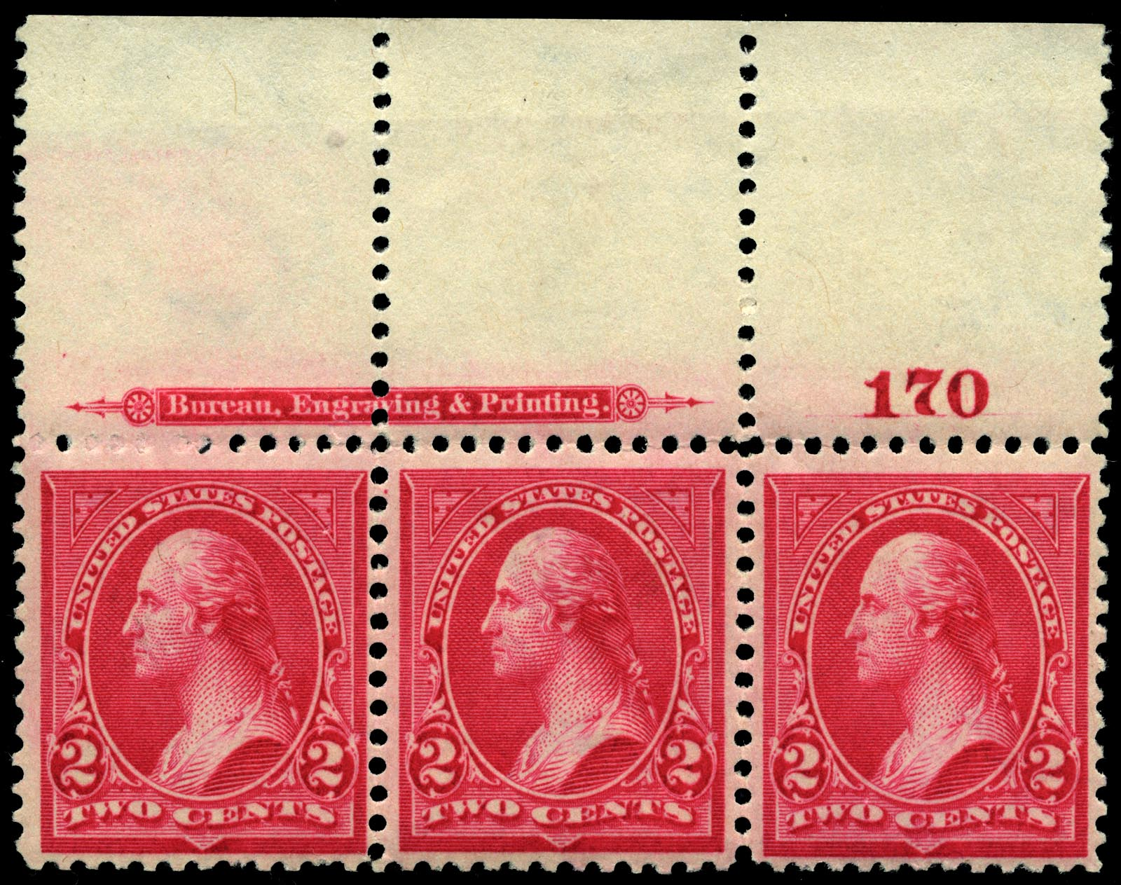 United States 2c type III stamp of 1895, plate strip of 3